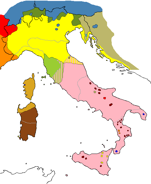 Italian dialects before 1939